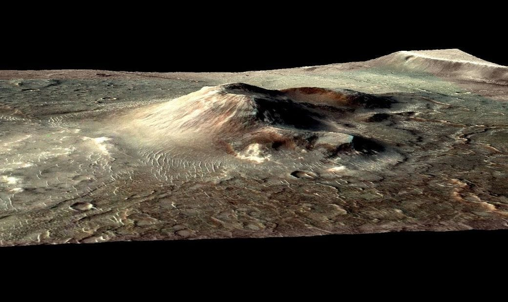 The Nili Tholus cinder cone in the Nili Patera caldera on Mars. The white materials are silica sinters that were deposited in ancient hot spring environments.